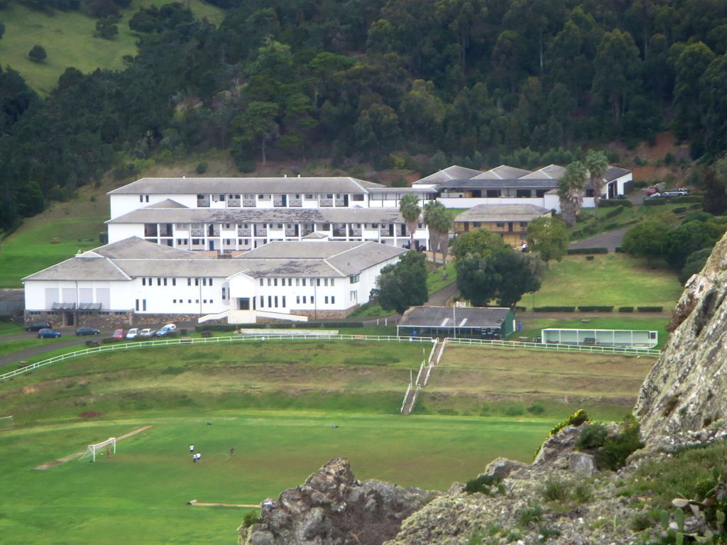 Prince Andrew School at Francis Plain, St Helena Island, is the island's only secondary school.